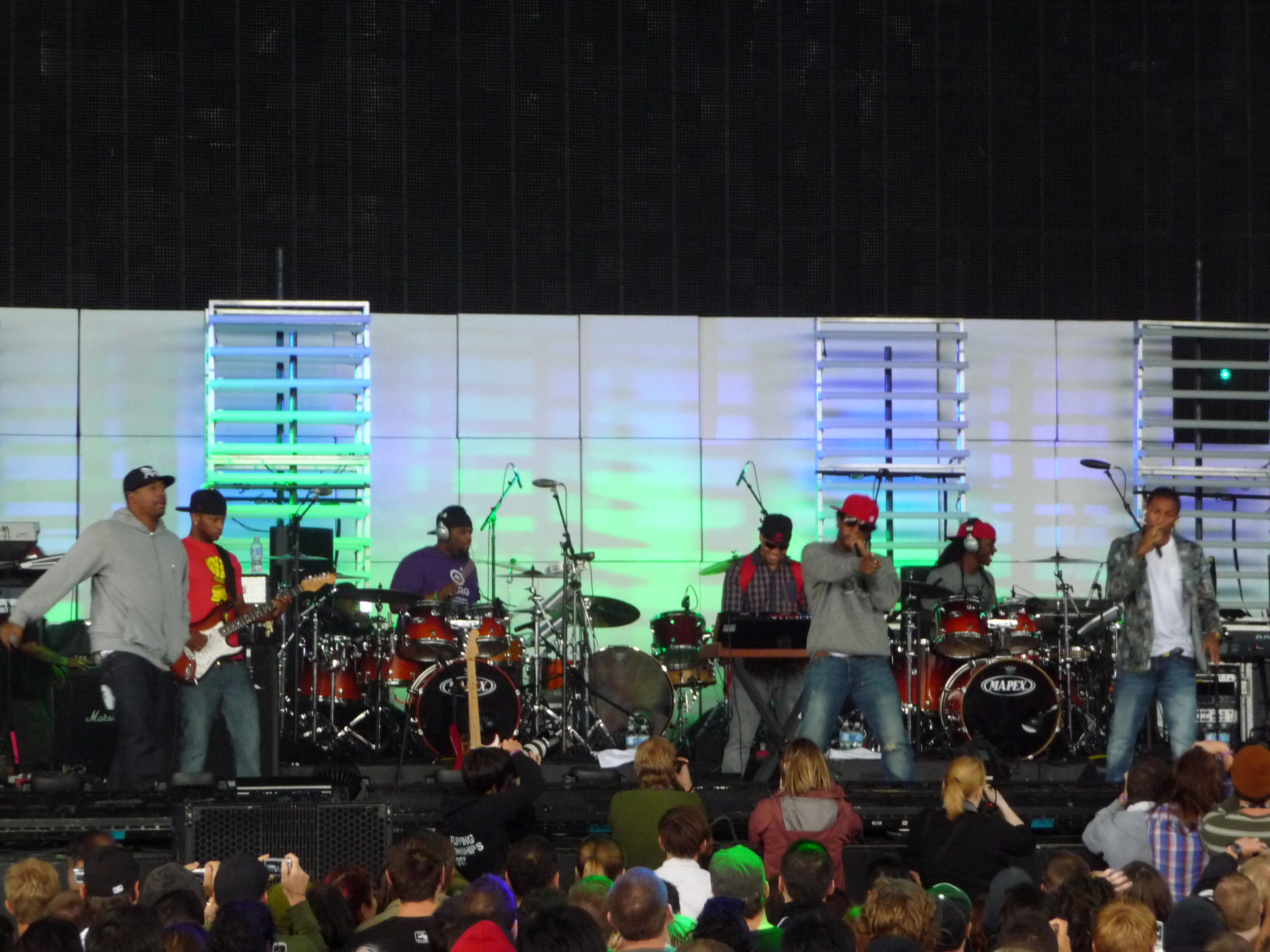 N.E.R.D. performing at Virgin Festival Ontario day 2 2009